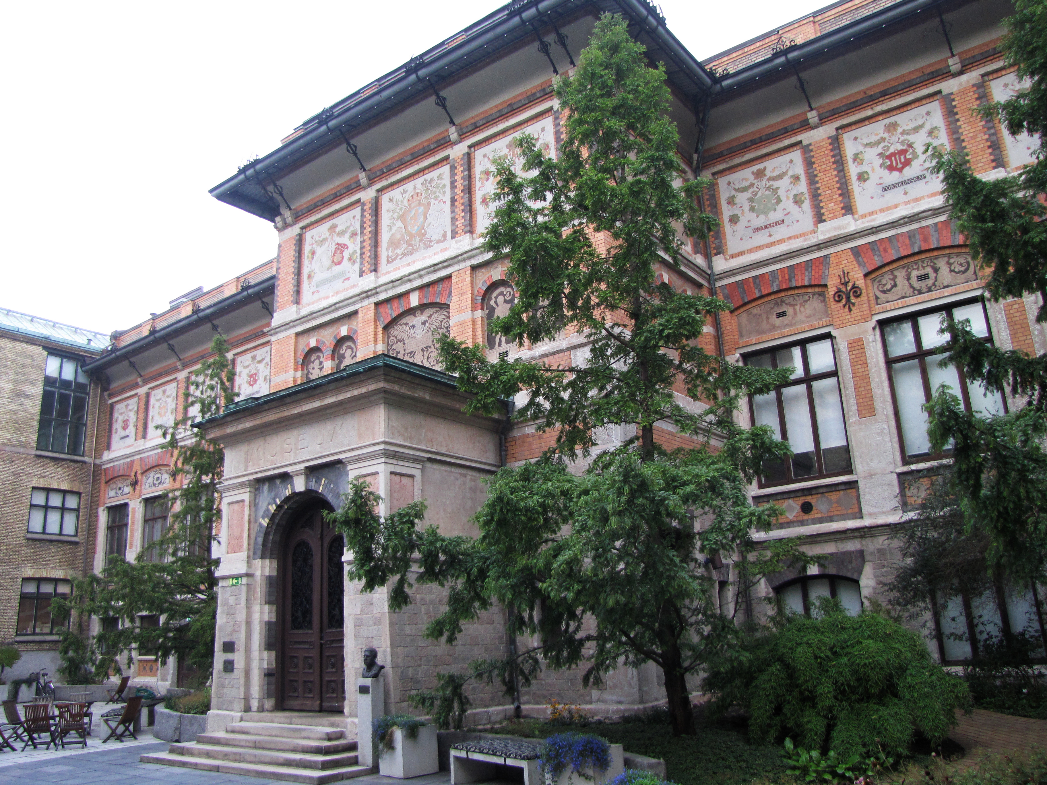 Building of Ostindiska kompaniet, the old Swedish East India Company in Göteborg: Back building.